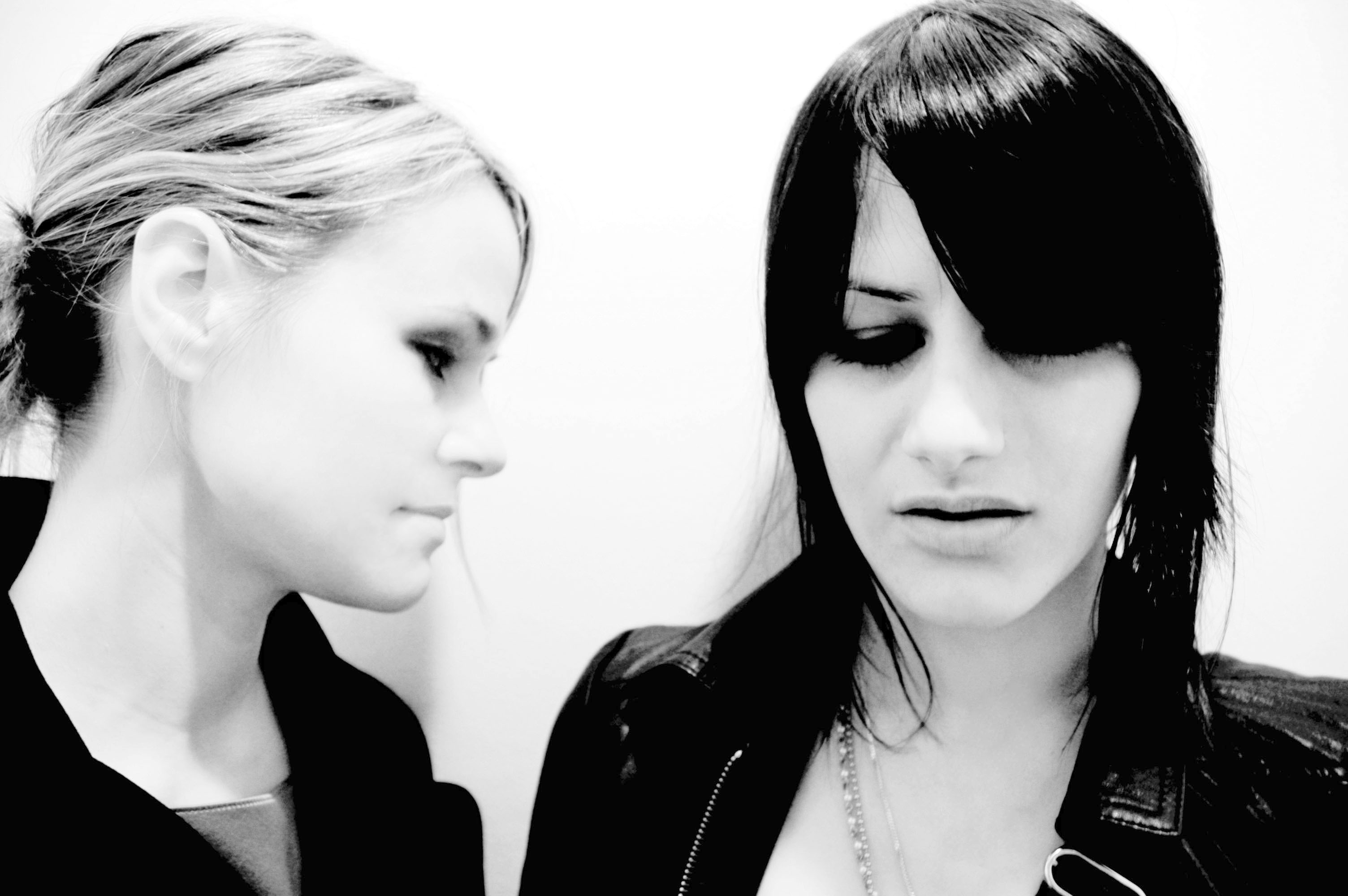 Indiepop band Uh Huh Her.